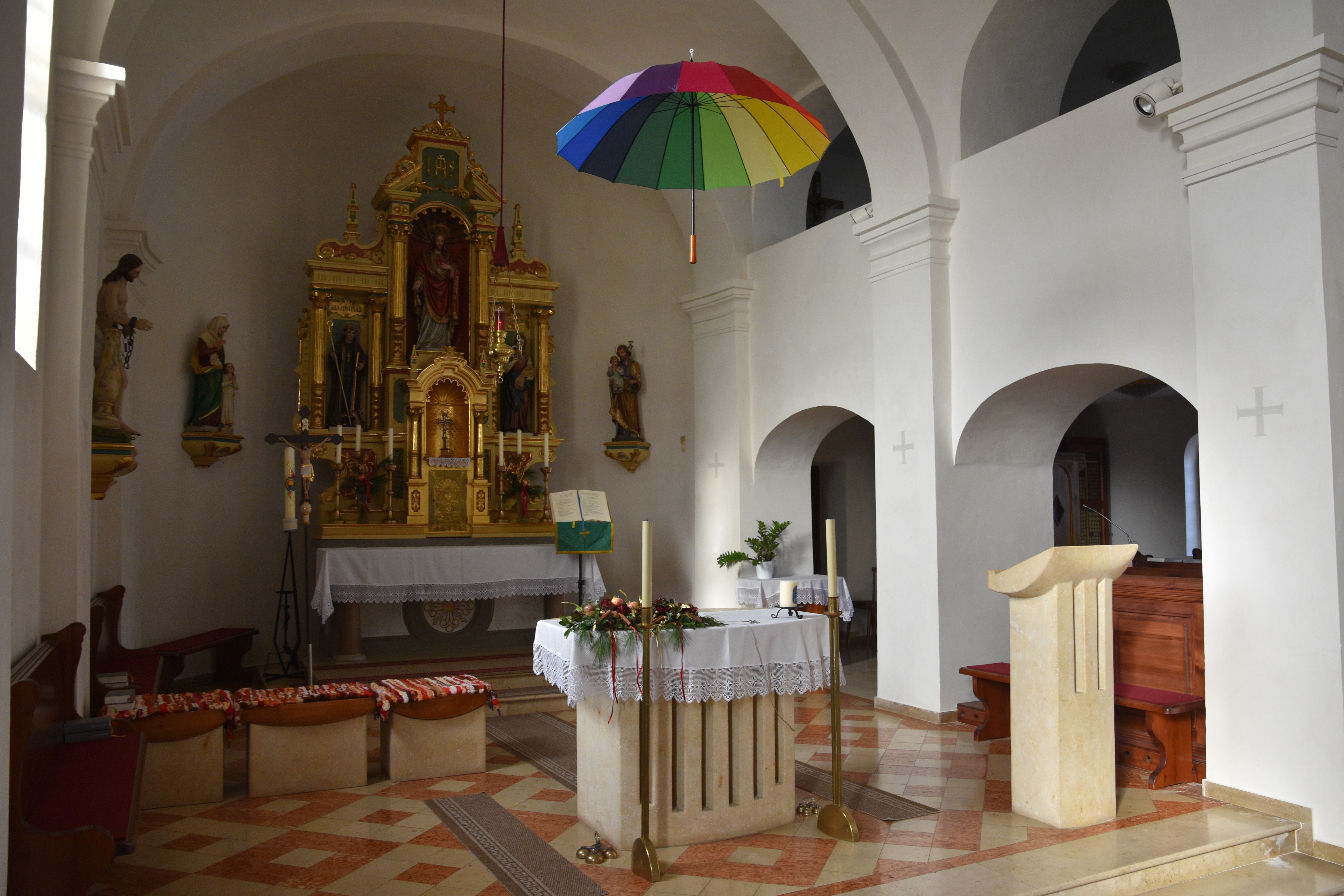 Church Kath. Pfarrkirche Hl. Herz-Jesu (Mettersdorf am Saßbach) Interior